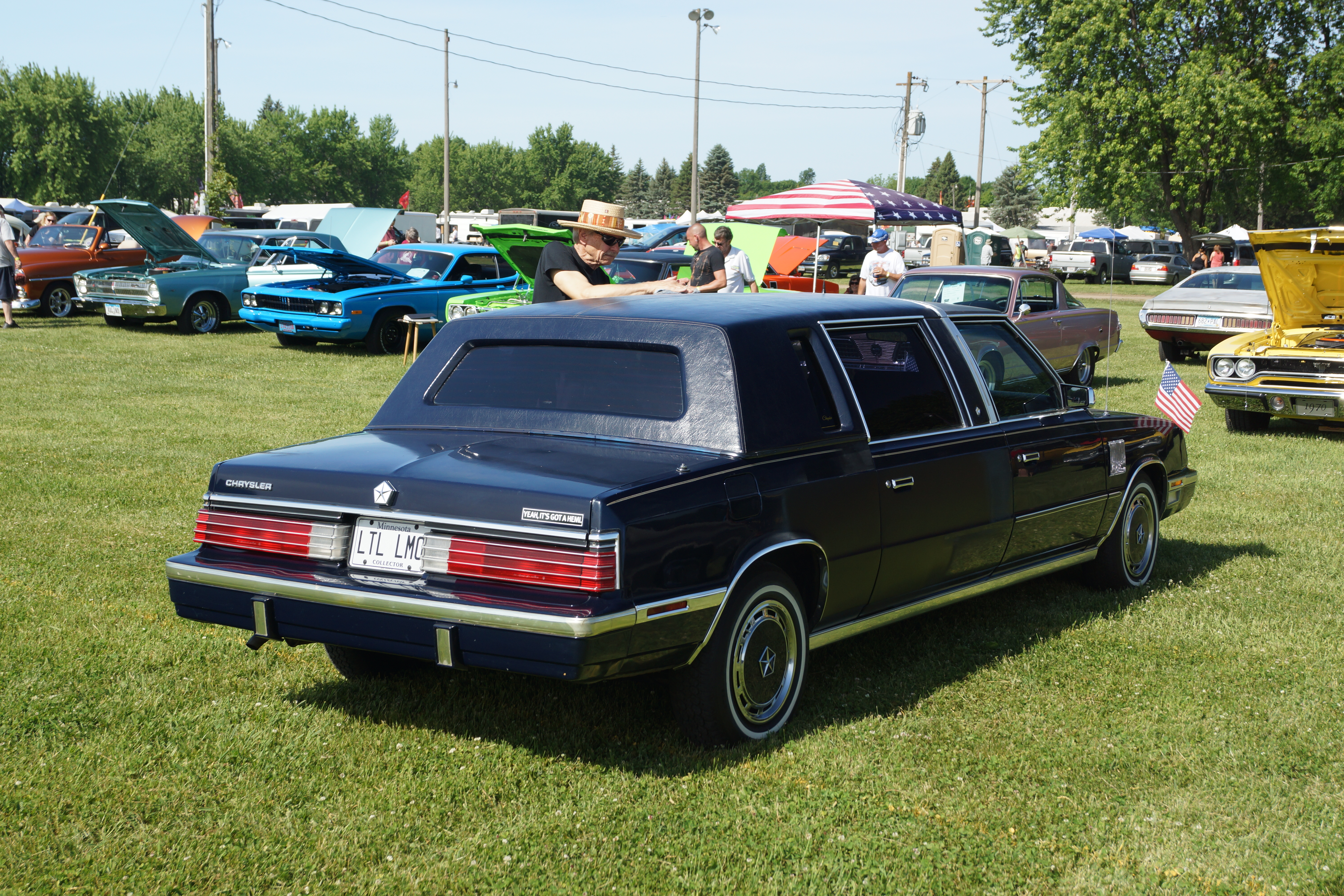 Midwest Mopars in the Park National Car Show & Swap Meet Dakota County Fairgrounds Farmington, Minntesota June 2-4, 2017